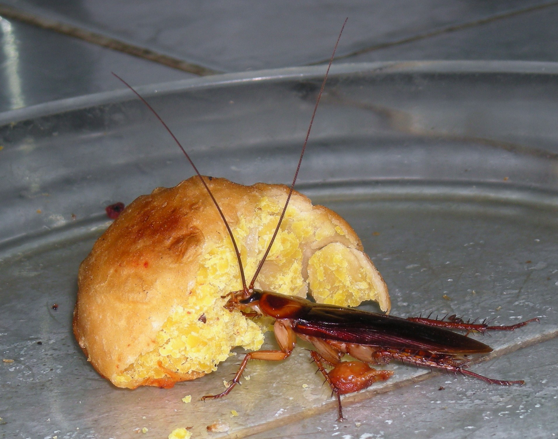 Periplaneta americana, "Dinner is served"